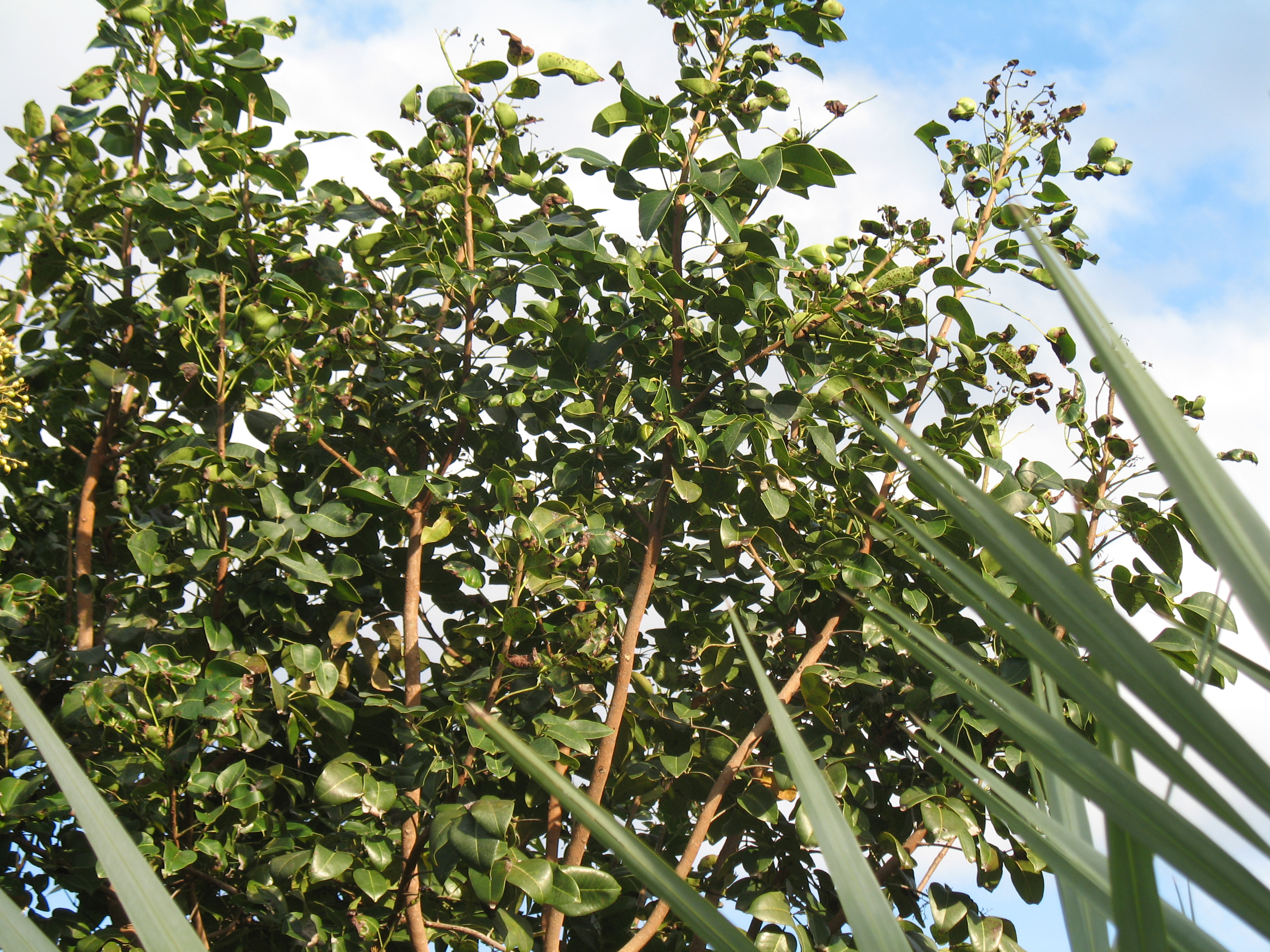 Metopium toxiferum in southern Florida